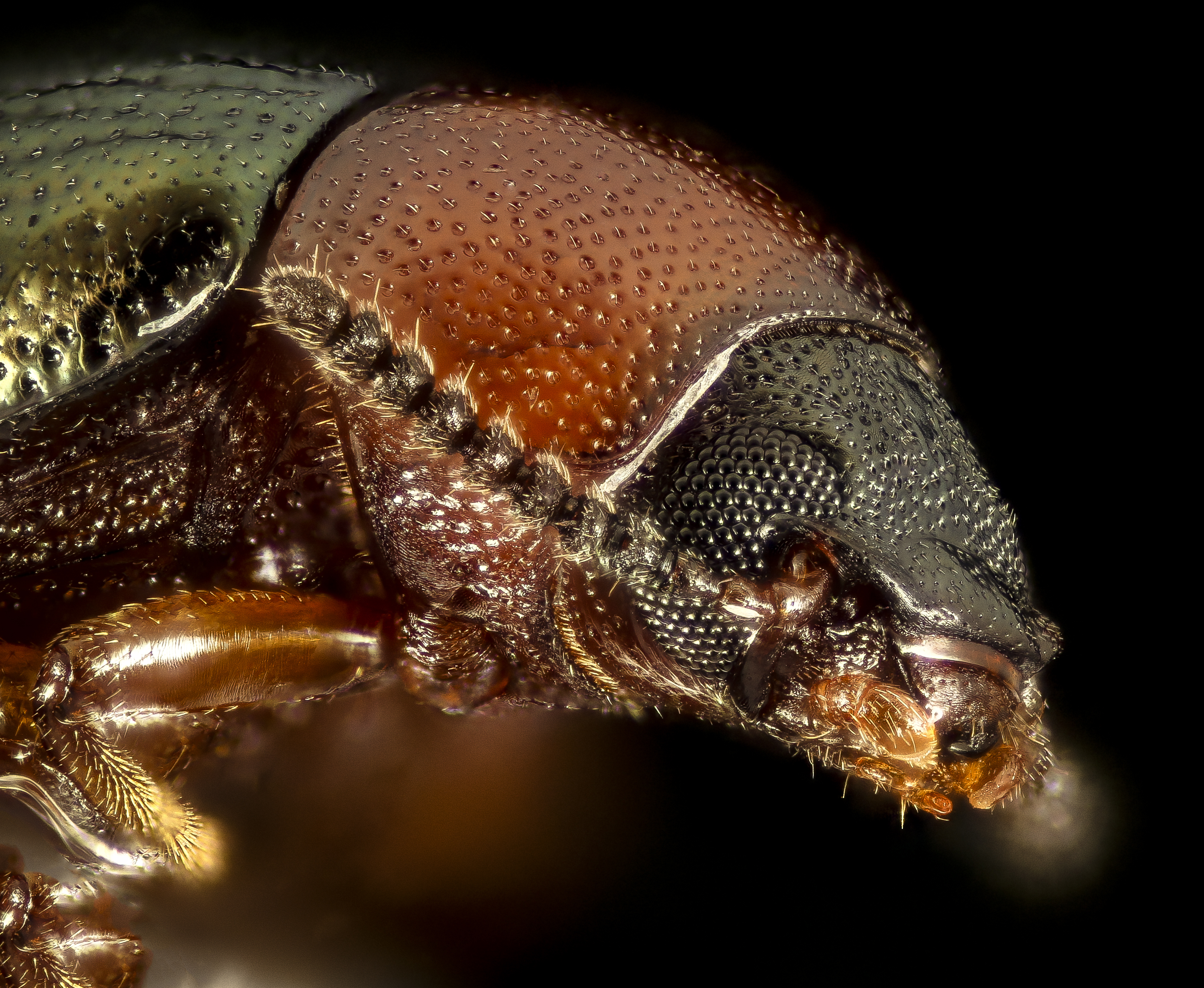 One of two beetles pictured from a collection of UV trap material from Little St. Simons Island on Coastal Georgia this past month. Potentially the start of a new monitoring program. I pulled these two out to take pictures simply because they were cool looking. Doug Yanega identified them as Tenbrionide. Collected by Eric who is a naturalist on the Island. Note these are very small beetles and the pictures were taken with a 10x lens. 02:53, 29 February 2016 (UTC)02:53, 29 February 2016 (UTC) 0 02:53, 29 February 2016 (UTC)02:53, 29 February 2016 (UTC) All photographs are public domain, feel free to download and use as you wish. Photography Information: Canon Mark II 5D, Zerene Stacker, Stackshot Sled, 200mm Pentax-m with Nikon 10X infinity microscope objective lens mounted on front , Twin Macro Flash in Styrofoam Cooler, F5.6, ISO 100, Shutter Speed 200 Love for Other Things It’s easy to love a deer But try to care about bugs and scrawny trees Love the puddle of lukewarm water From last week’s rain. Leave the mountains alone for now. Also the clear lakes surrounded by pines. People are lined up to admire them. Get close to the things that slide away in the dark. Be grateful even for the boredom That sometimes seems to involve the whole world. Think of the frost That will crack our bones eventually. - Tom Hennen You can also follow us on Instagram account USGSBIML Want some Useful Links to the Techniques We Use? Well now here you go Citizen: Basic USGSBIML set up: USGSBIML Photoshopping Technique: Note that we now have added using the burn tool at 50% opacity set to shadows to clean up the halos that bleed into the black background from "hot" color sections of the picture. PDF of Basic USGSBIML Photography Set Up: ftp://ftpext.usgs.gov/pub/er/md/laurel/Droege/How%20to%20Take%20MacroPhotographs%20of%20Insects%20BIML%20Lab2.pdf Google Hangout Demonstration of Techniques: or Excellent Technical Form on Stacking: Contact information: Sam Droege 301 497 5840